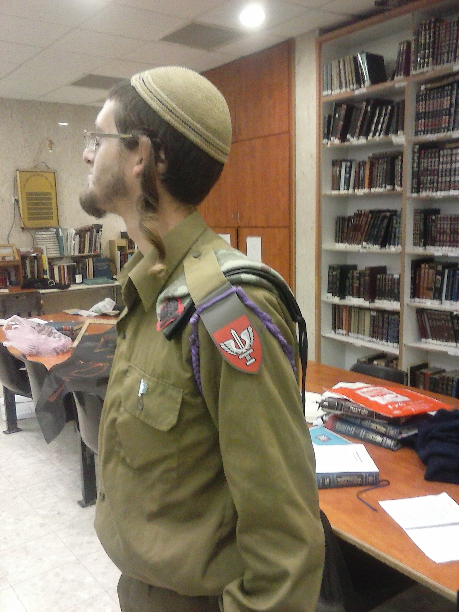 Welfare NCO from Netzah Yehuda Battalion.